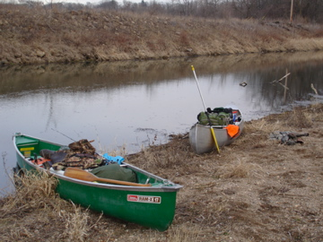 Jdoz Hole [presuming Bureau County based on English Wikipedia category and Big Bureau Creek based on renaming by non-uploader]